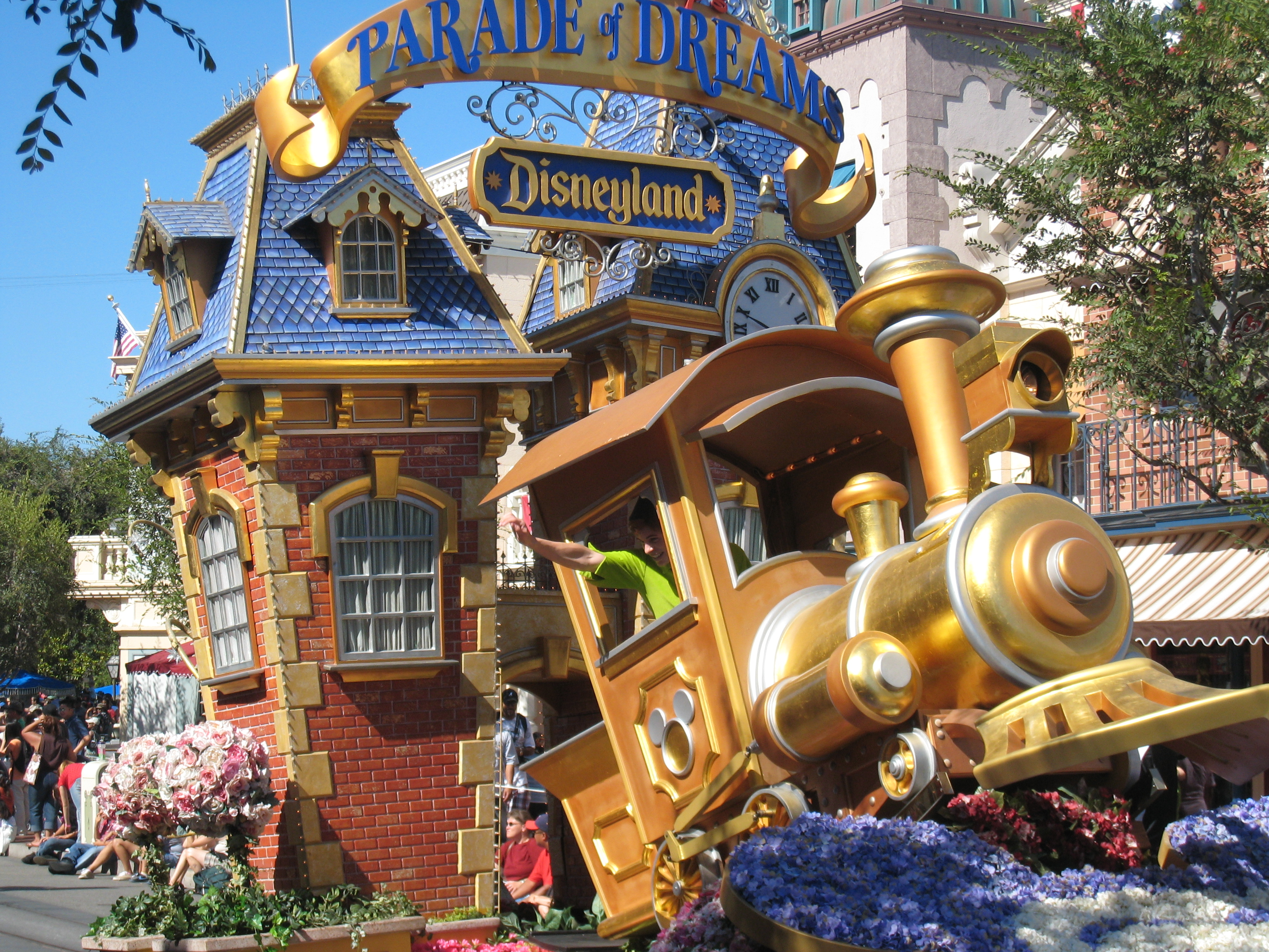 Lead float with Peter Pan - Parade of Dreams, Disneyland California.